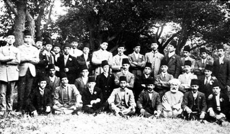 1912 Syrian Students at Maktab Anbar